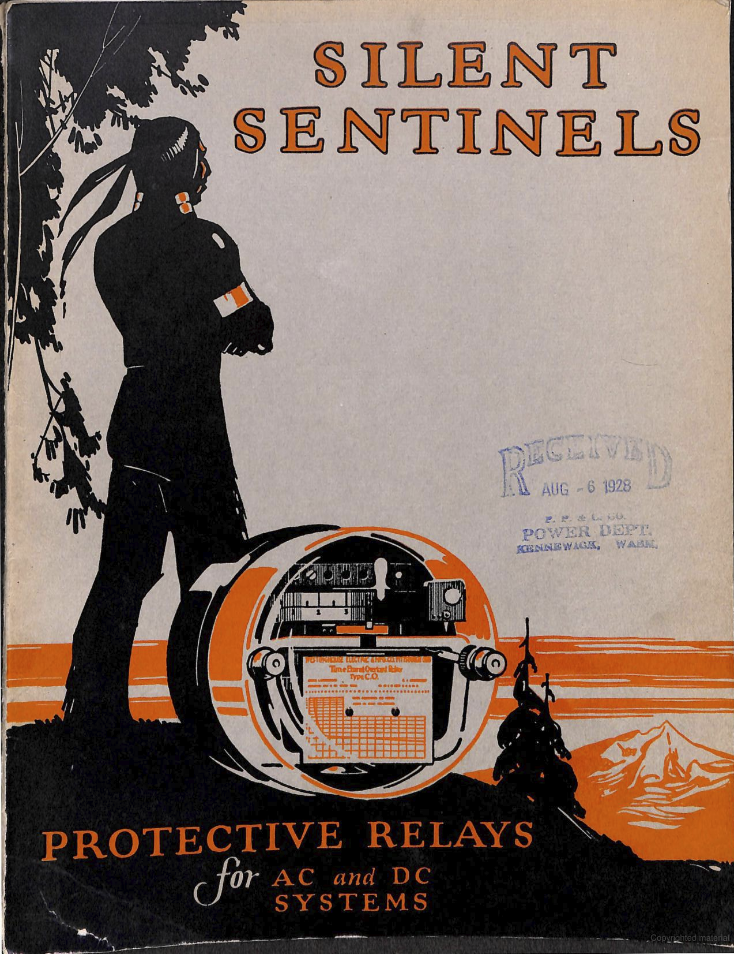 Silent Sentinels cover, 1924